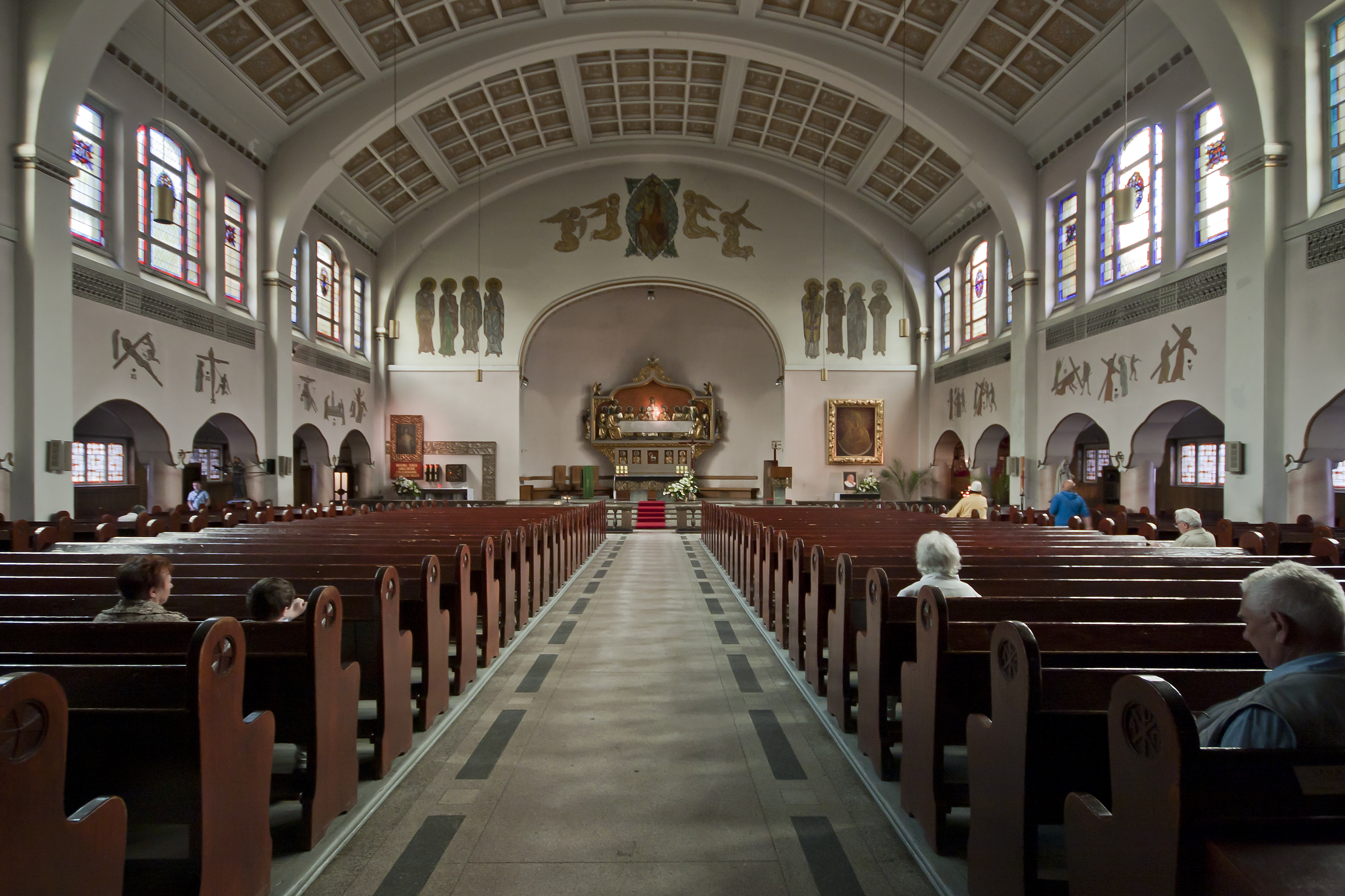 Church of Holy Heart of Jesus in Szczecin, Poland.